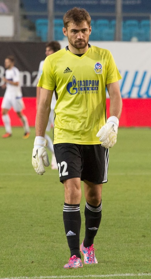 Stanislav Buchnev with FC Volgar Astrakhan in a game against FC Dynamo Moscow.